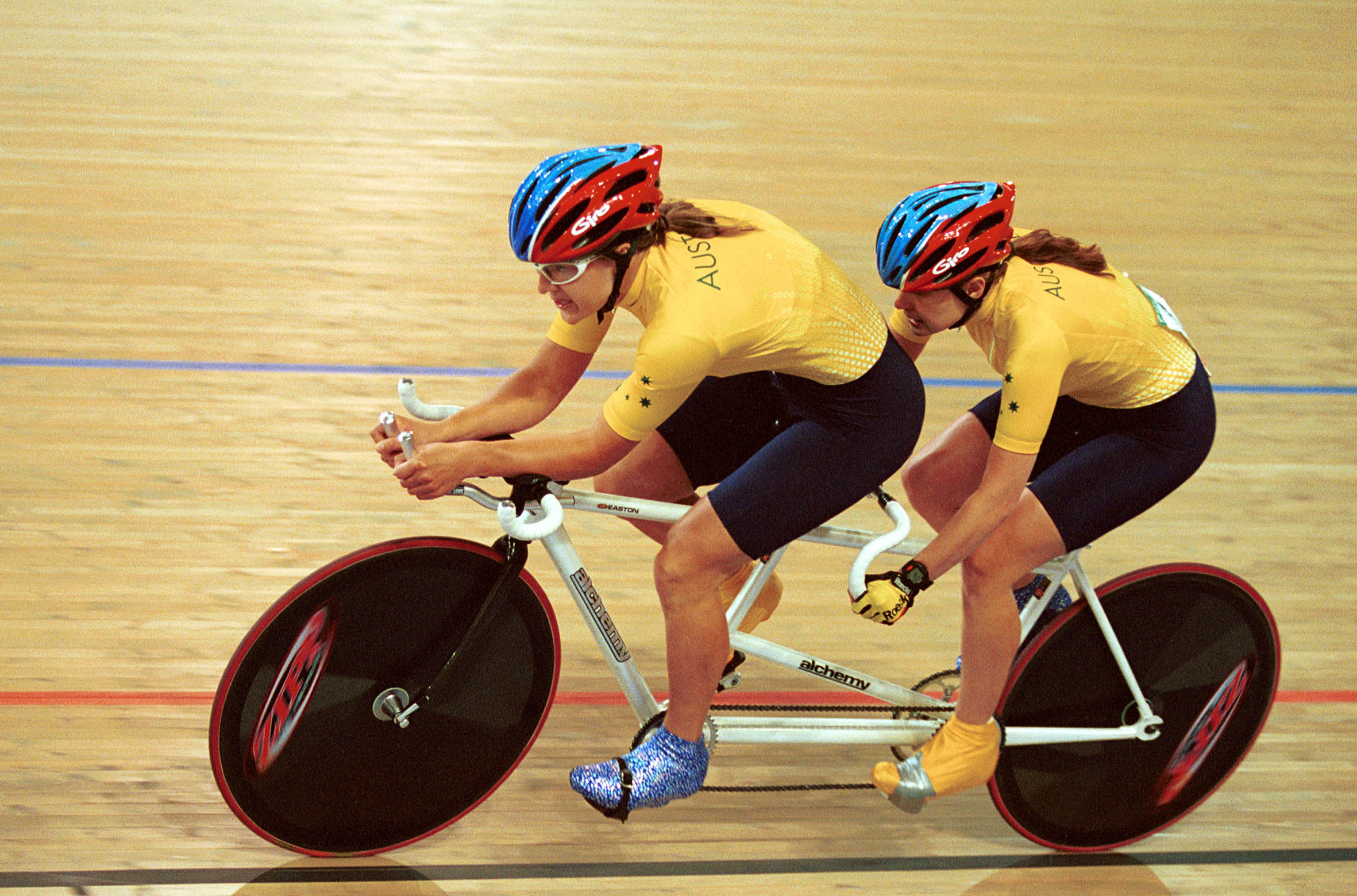 Action shot of Australian track cyclists Tania Modra (pilot) and Sarnya Parker as they race in the 2000 Sydney Paralympic Games Women's Tandem 1k Time Trial. They won gold in the event.